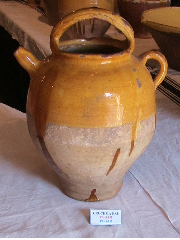 Jug, Cruche, Pegar, gascon:Pegà, from Montory, French Basque Country. Documentation note: The piece of pottery that appears in this file, not is a botijo. It's a typical piece in the "pottery of water" in the North of Spain and South of France, of possible origin franco (old tribal french) as "càntir, the doll and the mamet" introduced by the restocking of the Marca Hispanica in the Catalunya Vella. Also produced in the Basque country, as a vessel of the same family as the "Biscay pitcher" (Basque: "pegarra, pedarra or kantarue"), higher than this and used for drinking during the agricultural tasks. The correct designation today (2012) would be pitcher or jug in Spanish and was cruche a eau in French. Documentation and references: Natacha Seseña and Emili Sempere.